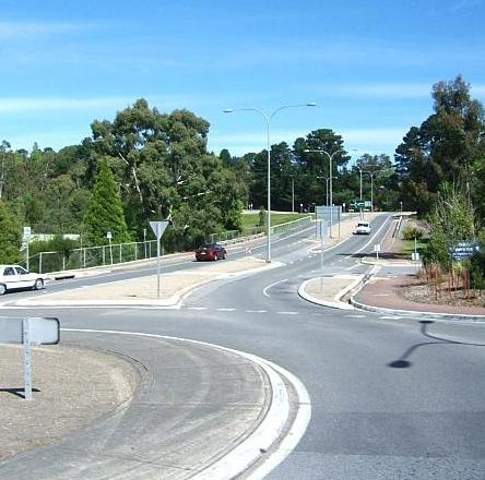 Crafers Interchange, Crafers, Adelaide, South Australia